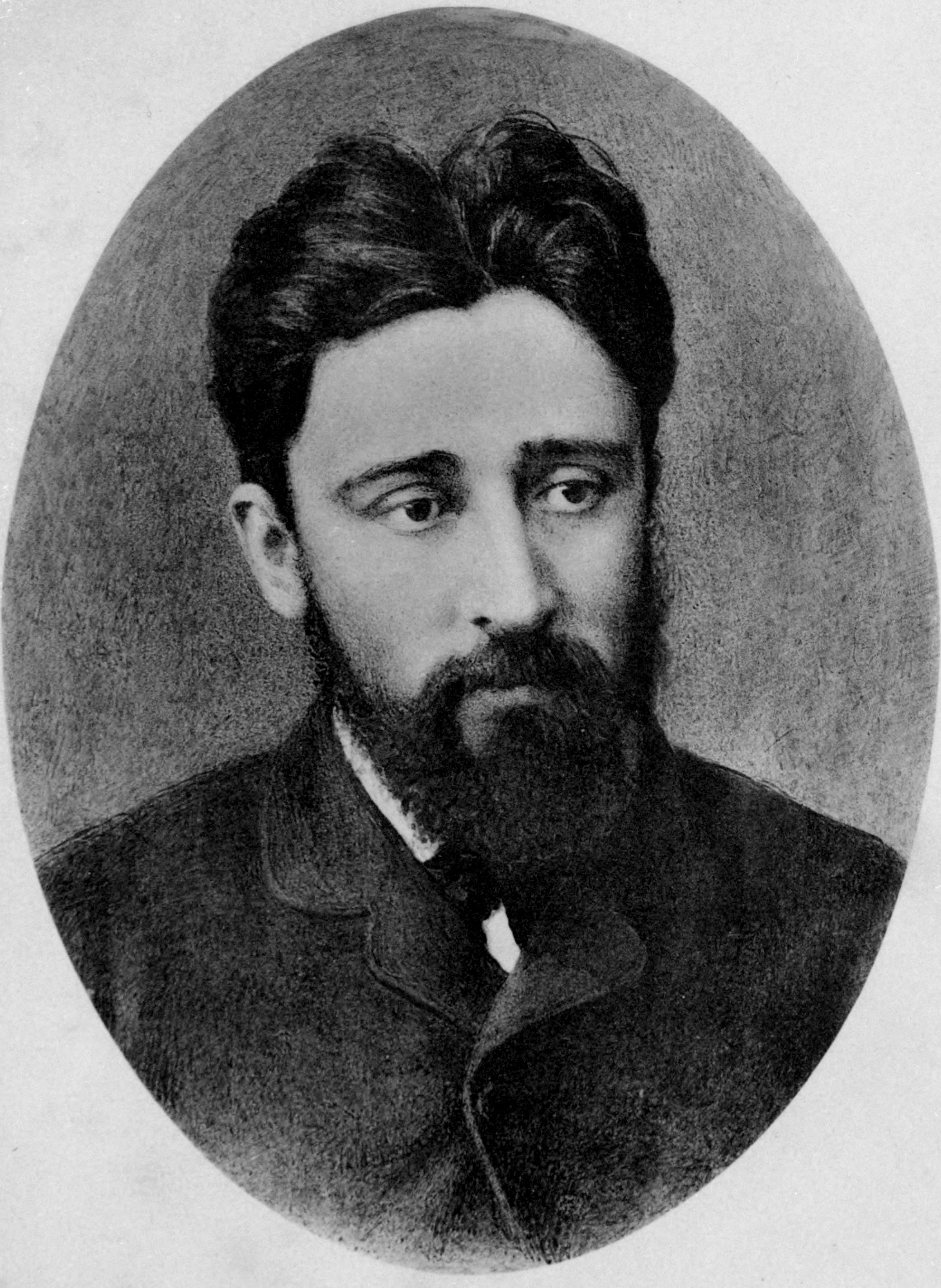 Russian writer Vsevolod Garshin.